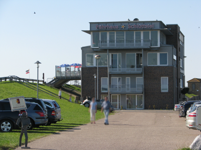 Fährhaus Schlüttsiel is a famous landmark in the municipality of Ockholm (Germany), due to its beautiful outlook above the North-Frisian part of the Schleswig-Holstein Wadden Sea National Park